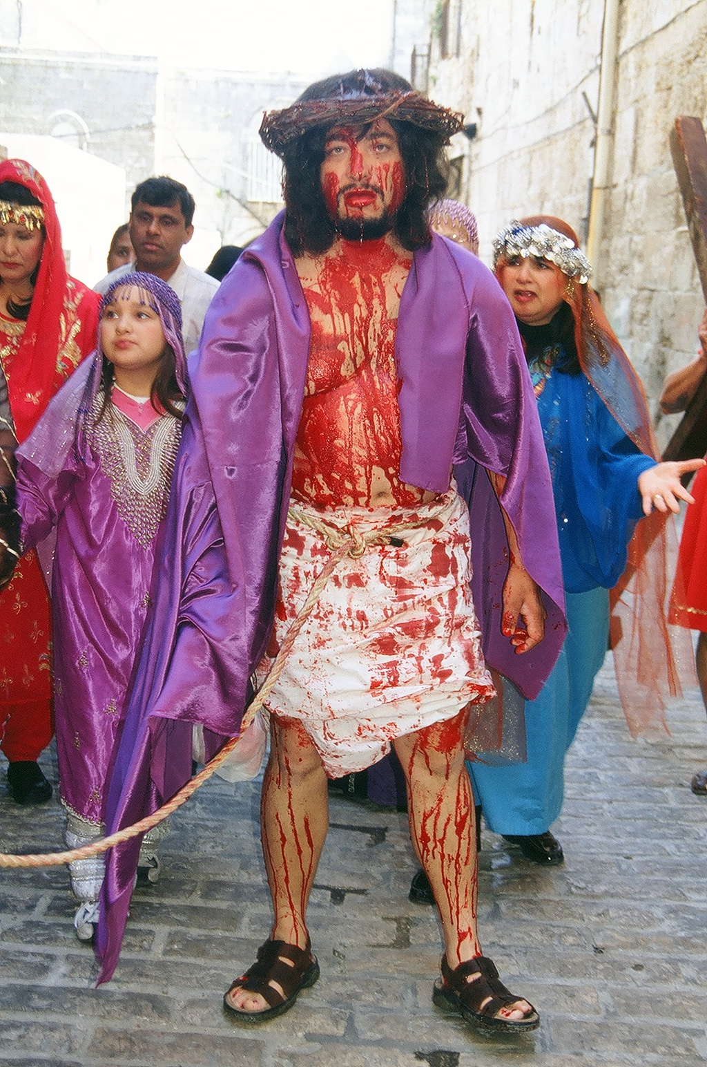 Old Jerusalem, Lions Gate road, "the walk of Jesus" on Good Friday Procession (25 March 2005) on Via Dolorosa Man depicting tortured Jesus - Israel fifth day photo number 009